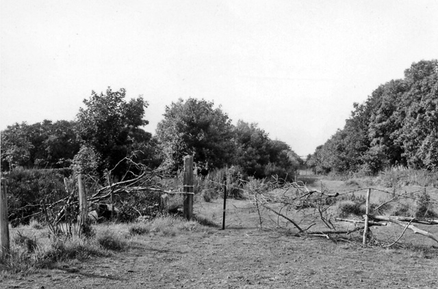 Site of Boarhills Station. View westward, towards St Andrews; ex-NBR Thornton Junction - Crail - St Andrews line. This station closed to passengers 22/9/30, but not goods until 5/10/64; the line was closed completely 6/9/65.